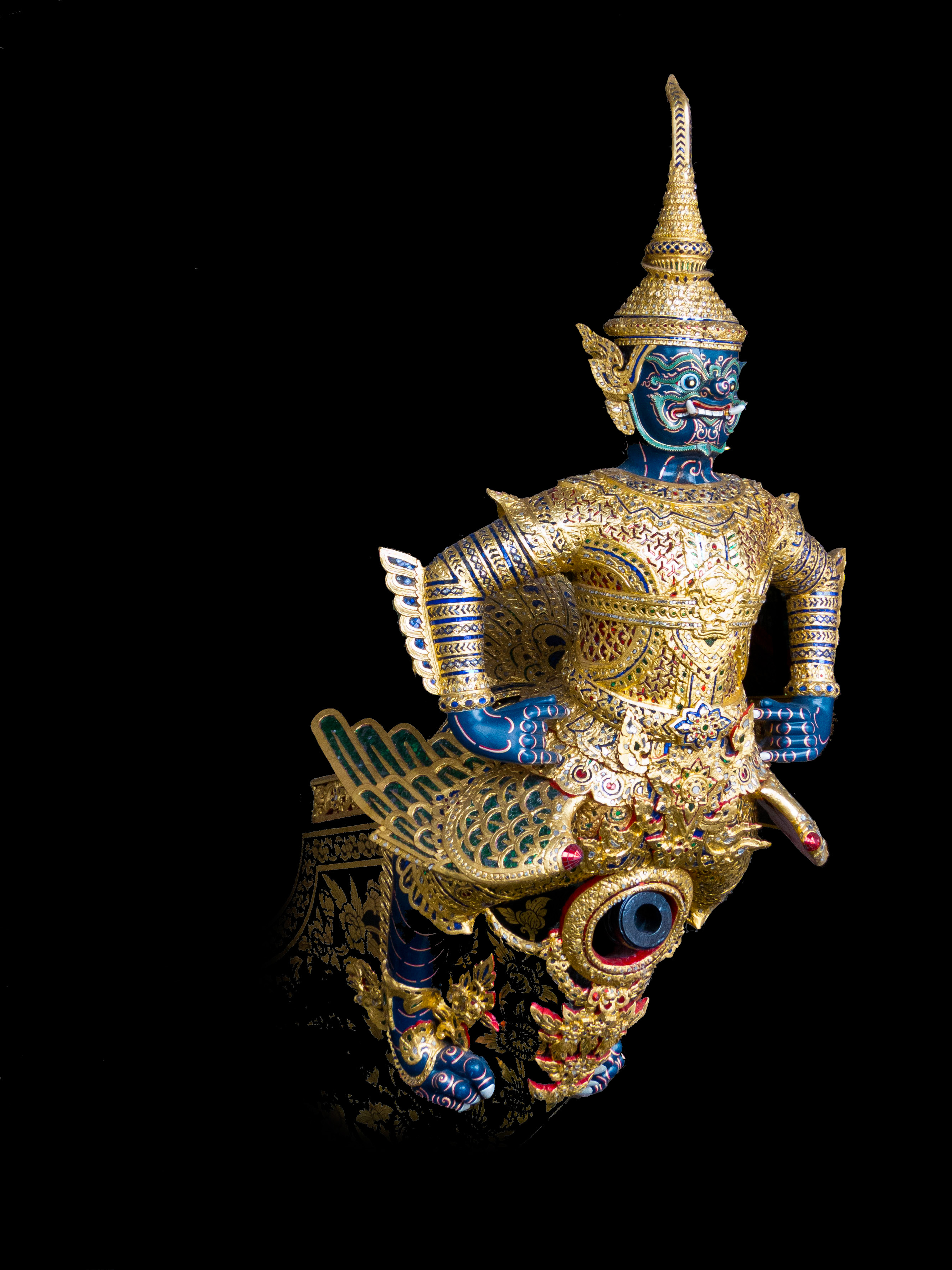 The Asura Vayuphak is a creature from the Himmavana forest as depicted in The Ramayana epic story from India. This creature is half giant (like his father) and half bird (like his mother). Ashuras demons in Hindu mythology